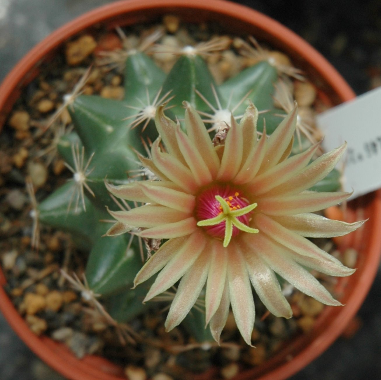 Flower of Escobaria missouriensis var. asperispina.